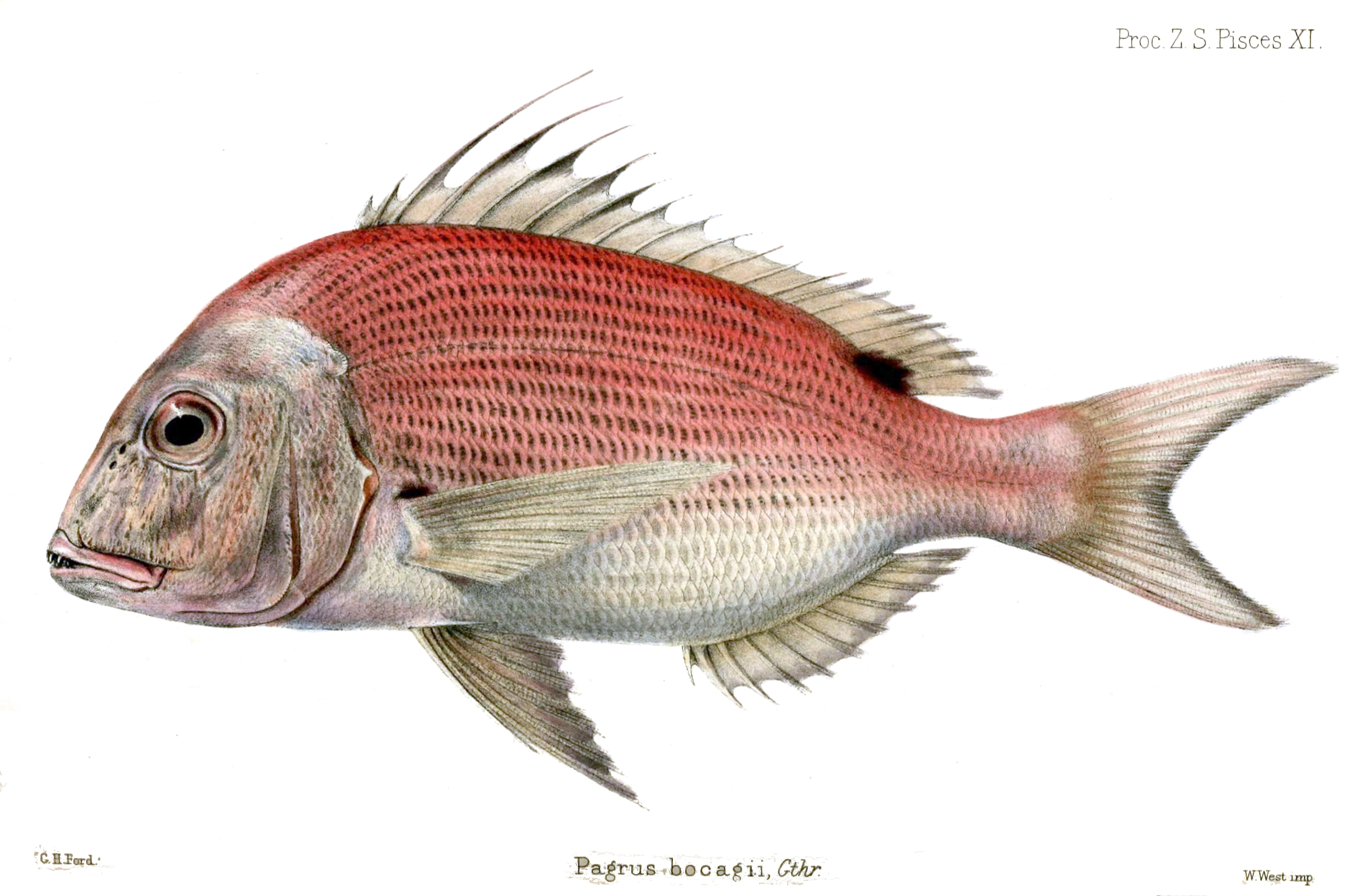 Blue-spotted Seabream